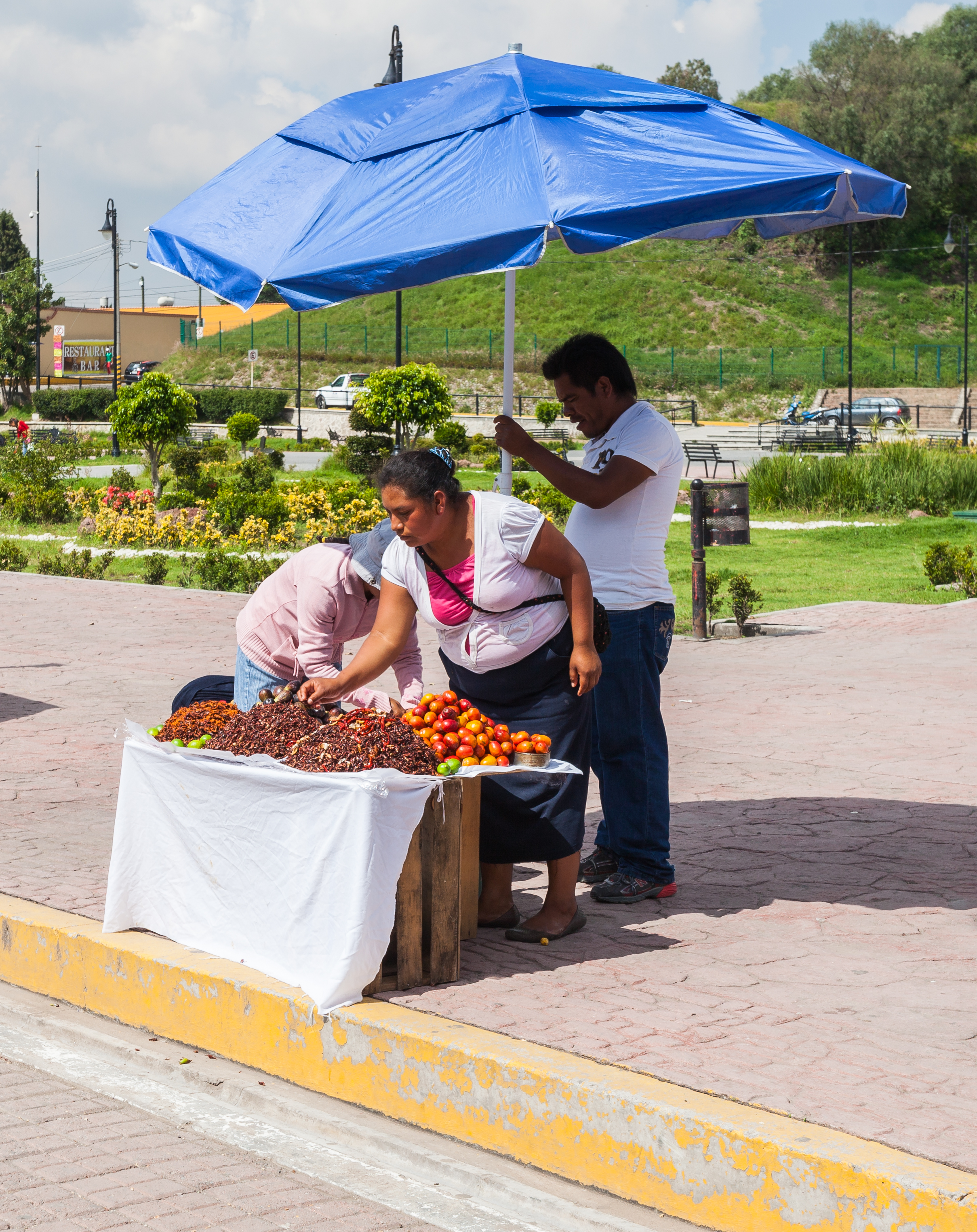 Street seller, Cholula, Puebla, México